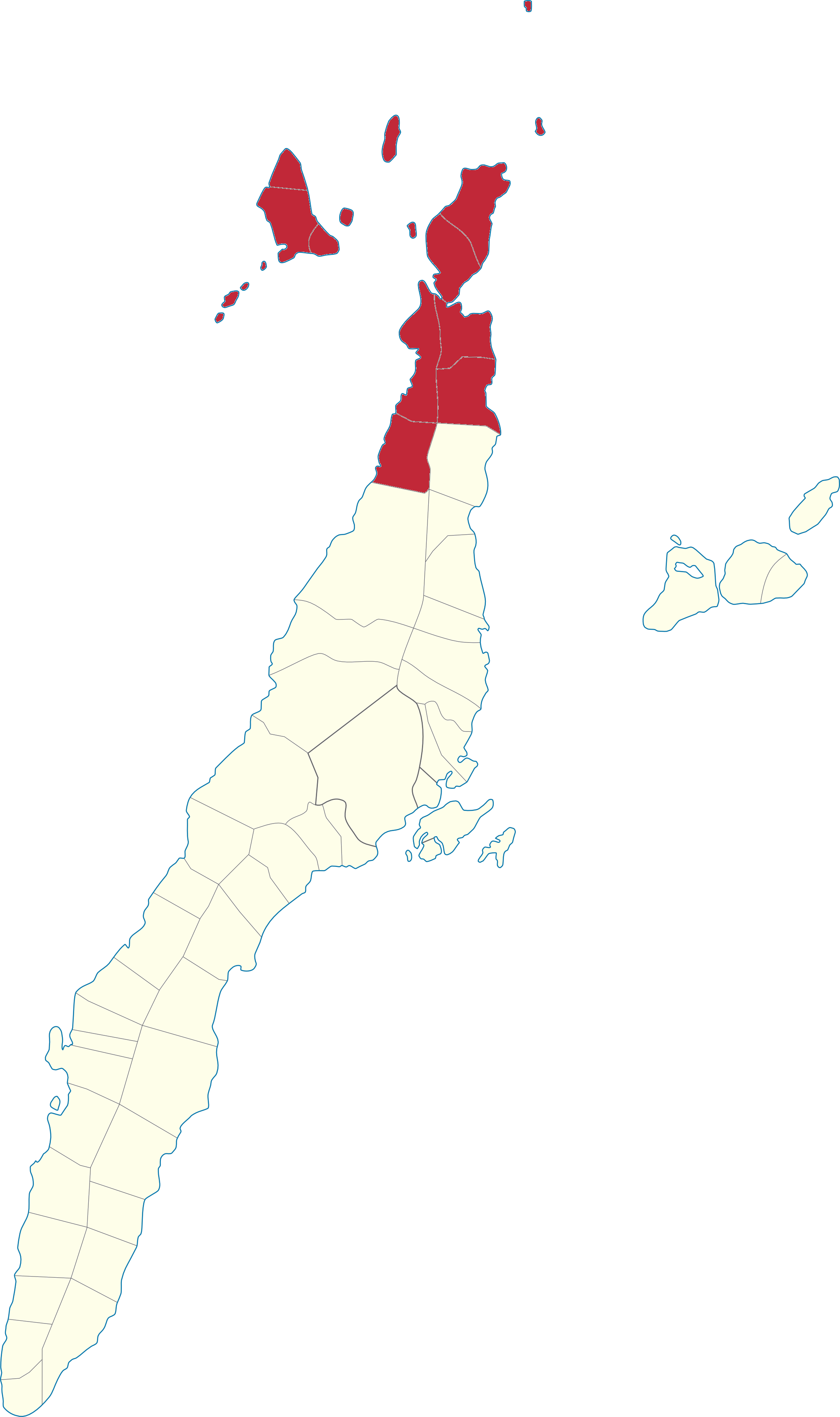 Location of 4th Legislative district of Cebu, Philippines